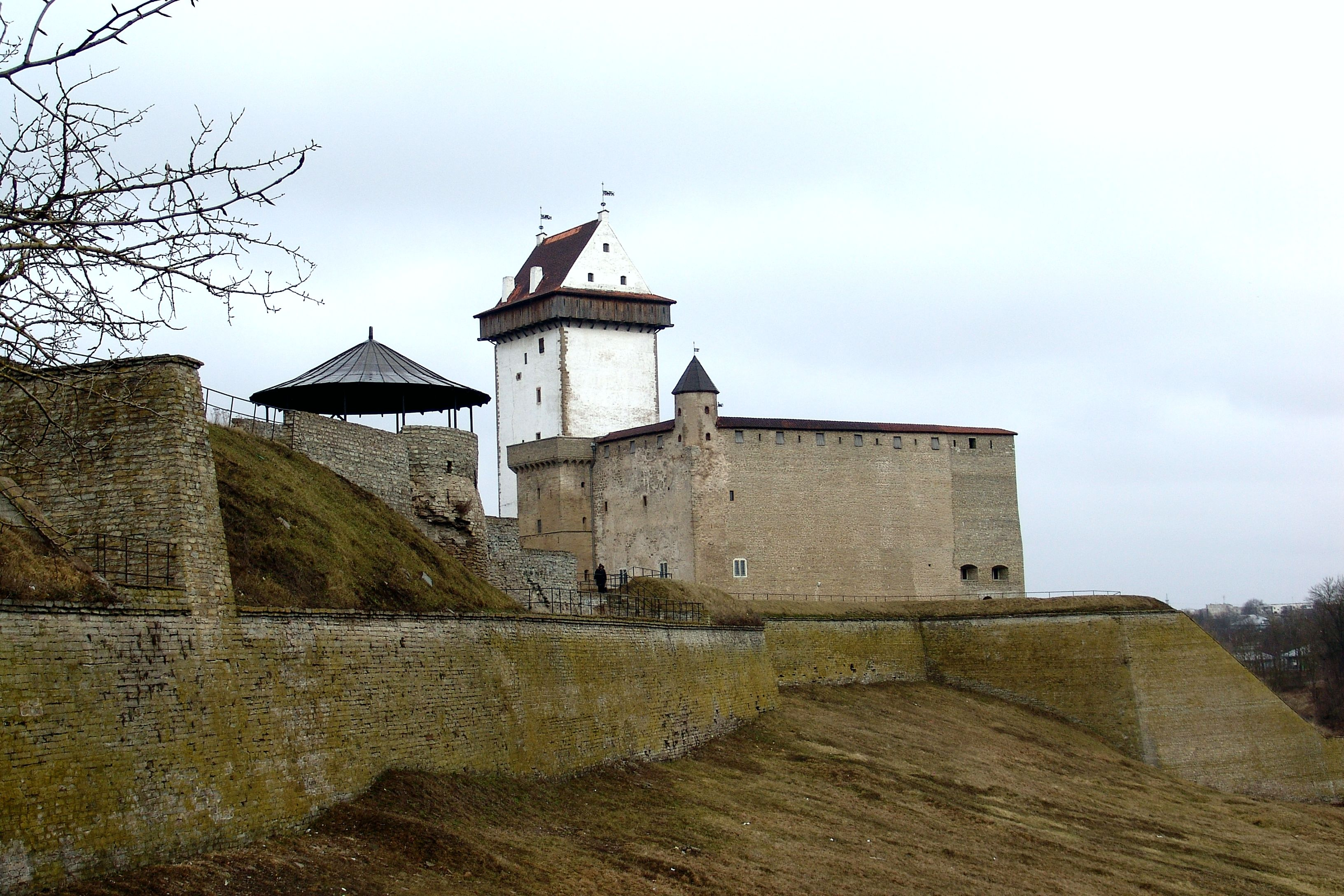 Bastion Fortuna of Narva castle